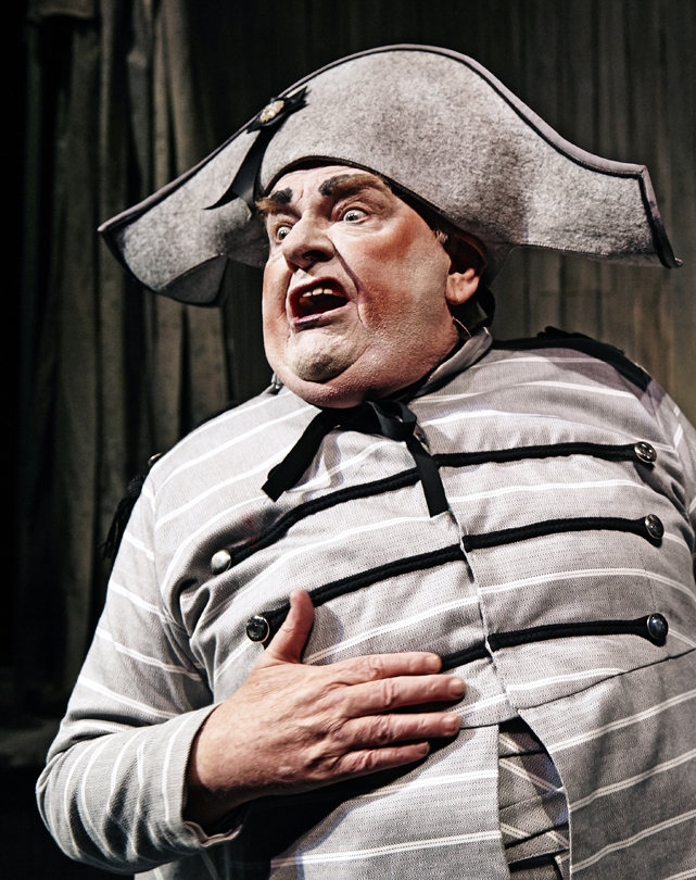 Ole Thestrup in The Copenhagen theater Folketeatret's production of the play "Jean de France" by Ludvig Holberg.